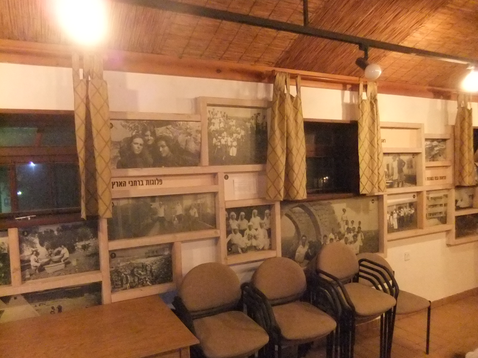 Gvat History room